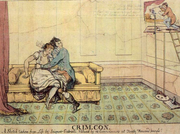 An 1807 print caricature of Sir John Piers and Lady Cloncurry, referencing a notorious scandal. Original caption: "Crim. Con. A Sketch taken from Life by Seignoir Gabrielli. Valued by 12 Connoisseurs at Twenty Thousand Pounds!"